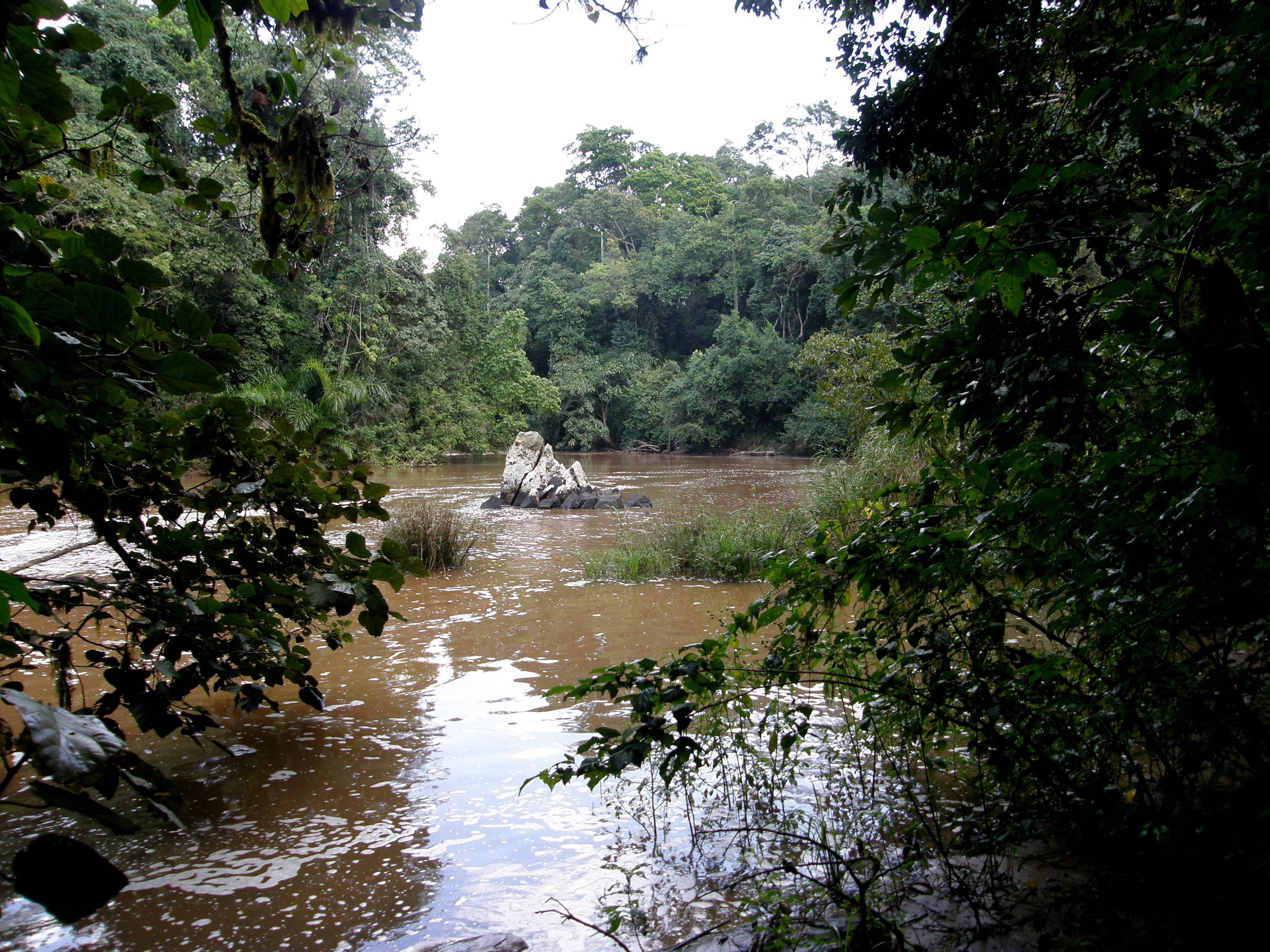 Yala river within Kakamega Rain Forest, western Kenya